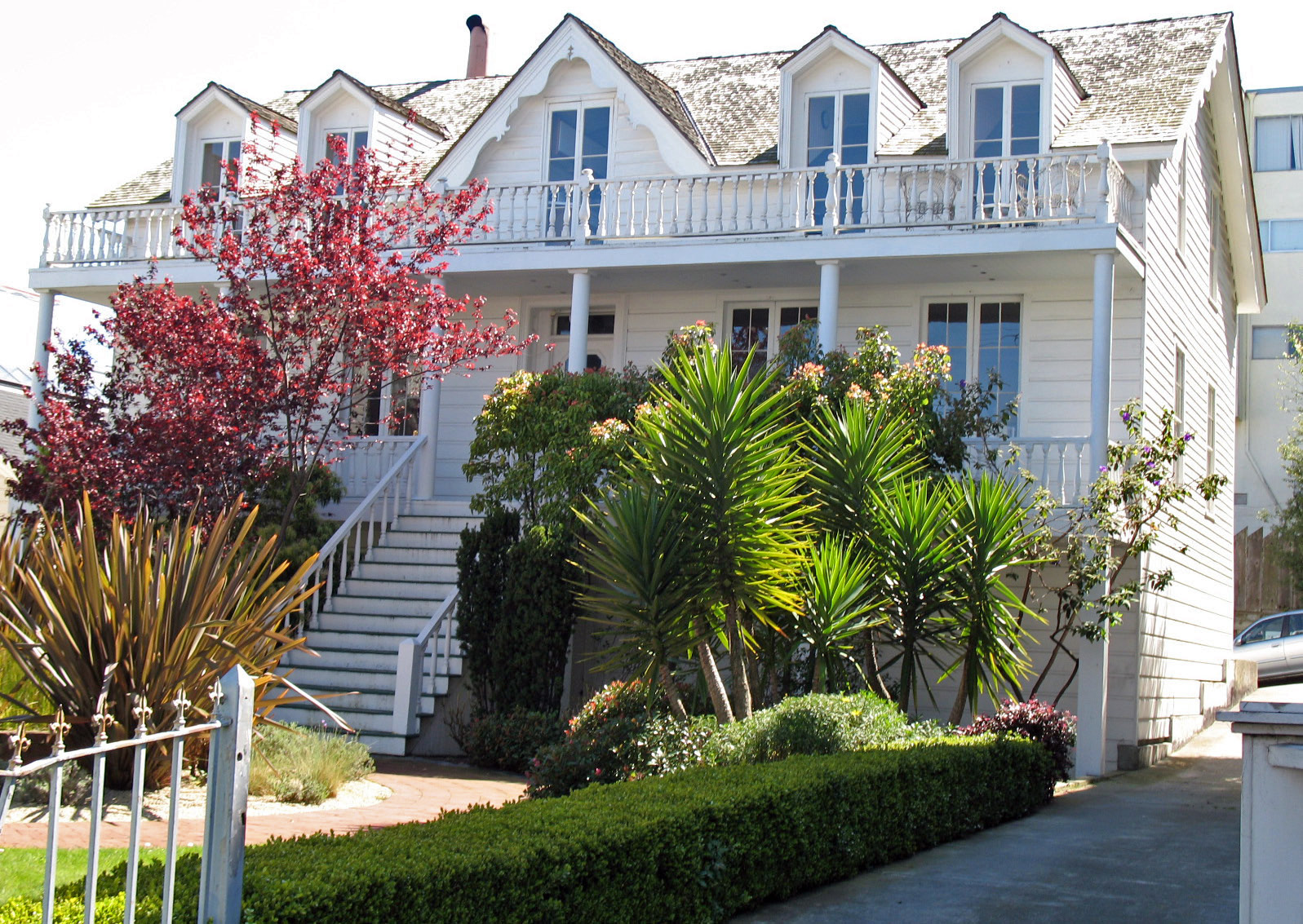 National Register of Historic Places in San Francisco, California. Abner Phelps House, 1111 Oak St, San Francisco, California, USA. Photographed from the south side of Oak St. between Broderick and Divisadero Sts.